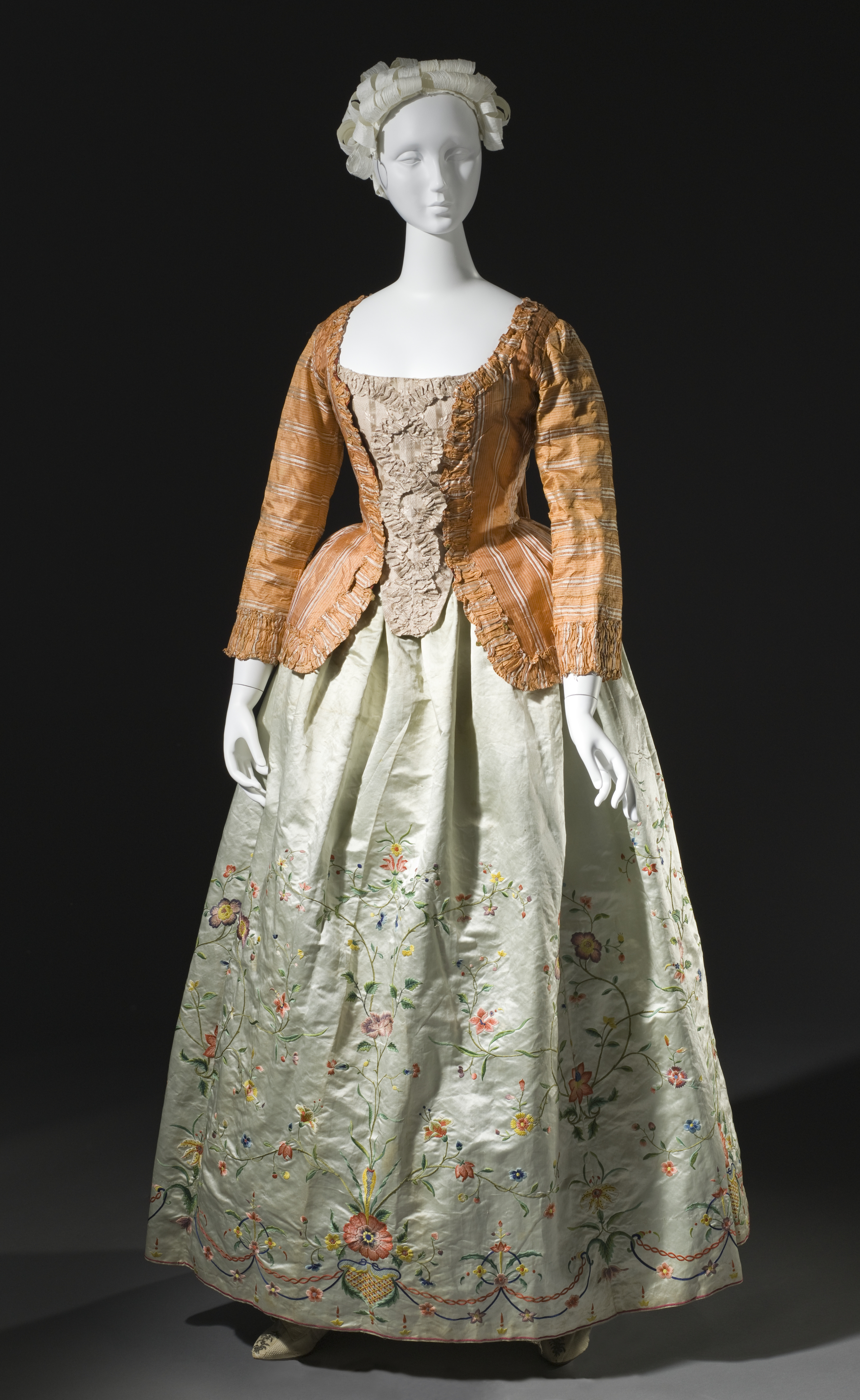 Woman's striped silk sack-back jacket (caraco), Europe, c. 1760, altered c. 1780, and embroidered silk petticoat, China for the Western market, c. 1785